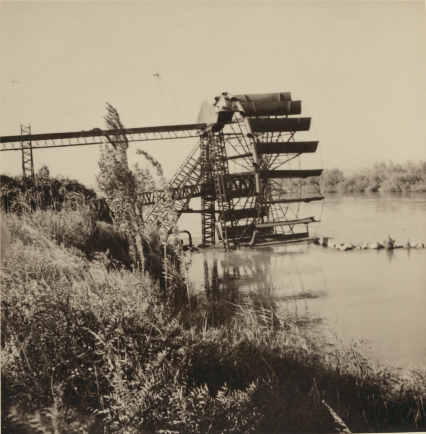 Assyrian refugees at Tell-Tamar and the Khabour River, July 21. Something of the twenty-seven villages built here by the League of Nations. Steel irrigating-wheel erected by the League of Nations. LC-DIG-ppmsca-17416-00125 (digital file from original on page 66, no. 2095)